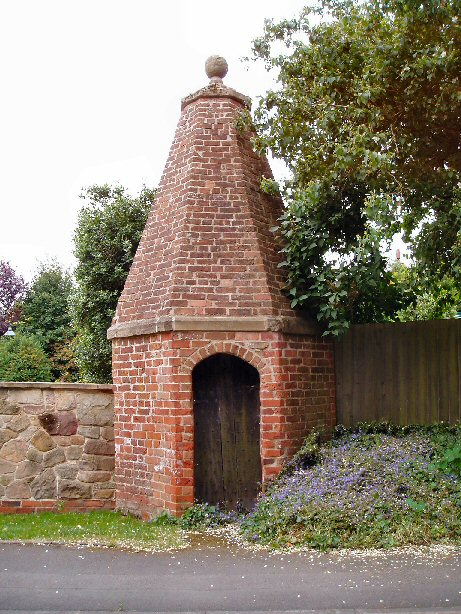 Smisby Roundhouse. A village roundhouse (also called a jug or lockup)was mainly used to lock up drunks (until they sobered up) and criminals (either for punishment or to await transport to court). The Smisby one is octagonal in shape and is constructed of brick and tile with a studded wooden door. It dates from the early C18th. As Smisby once had three pubs, drunks were likely its major tenants, though it was also used at times to temporarily house paupers and vagrants.